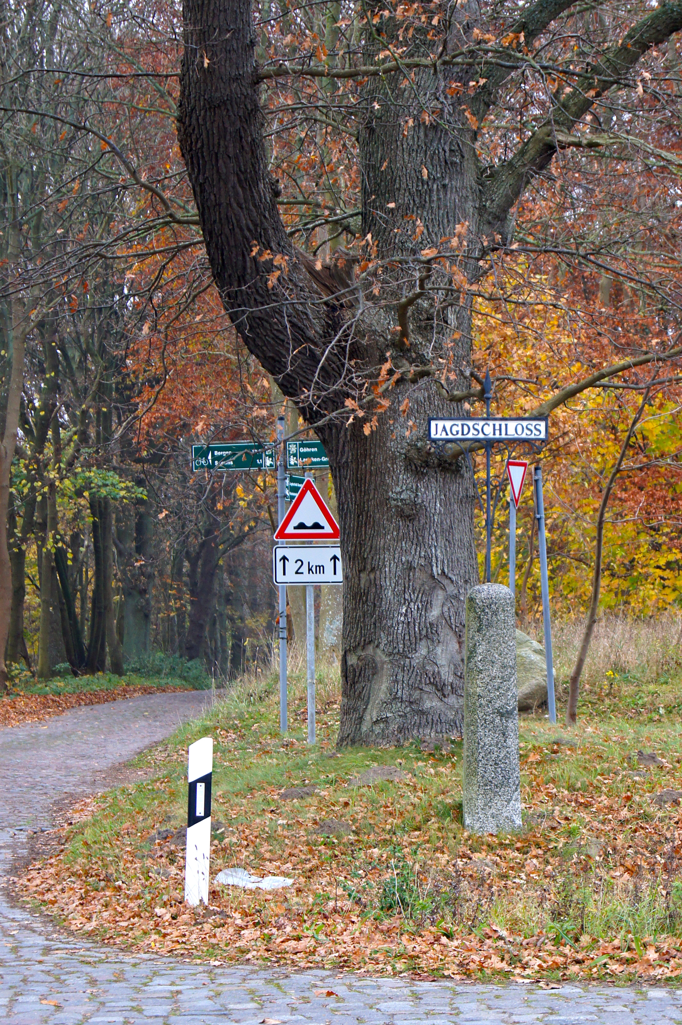 Zirkow (Serams), Germany: Sign toward the Granitz hunting hall